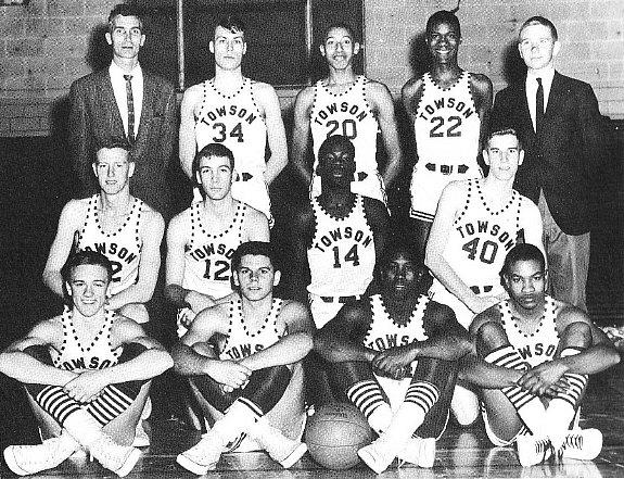 Team photo of the Towson High School Boys' Basketball team, which won the 1963 Maryland State Basketball Championship.